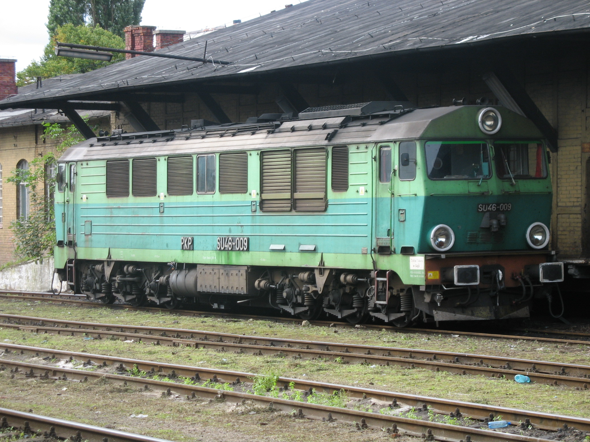 Diesel locomotive SU46